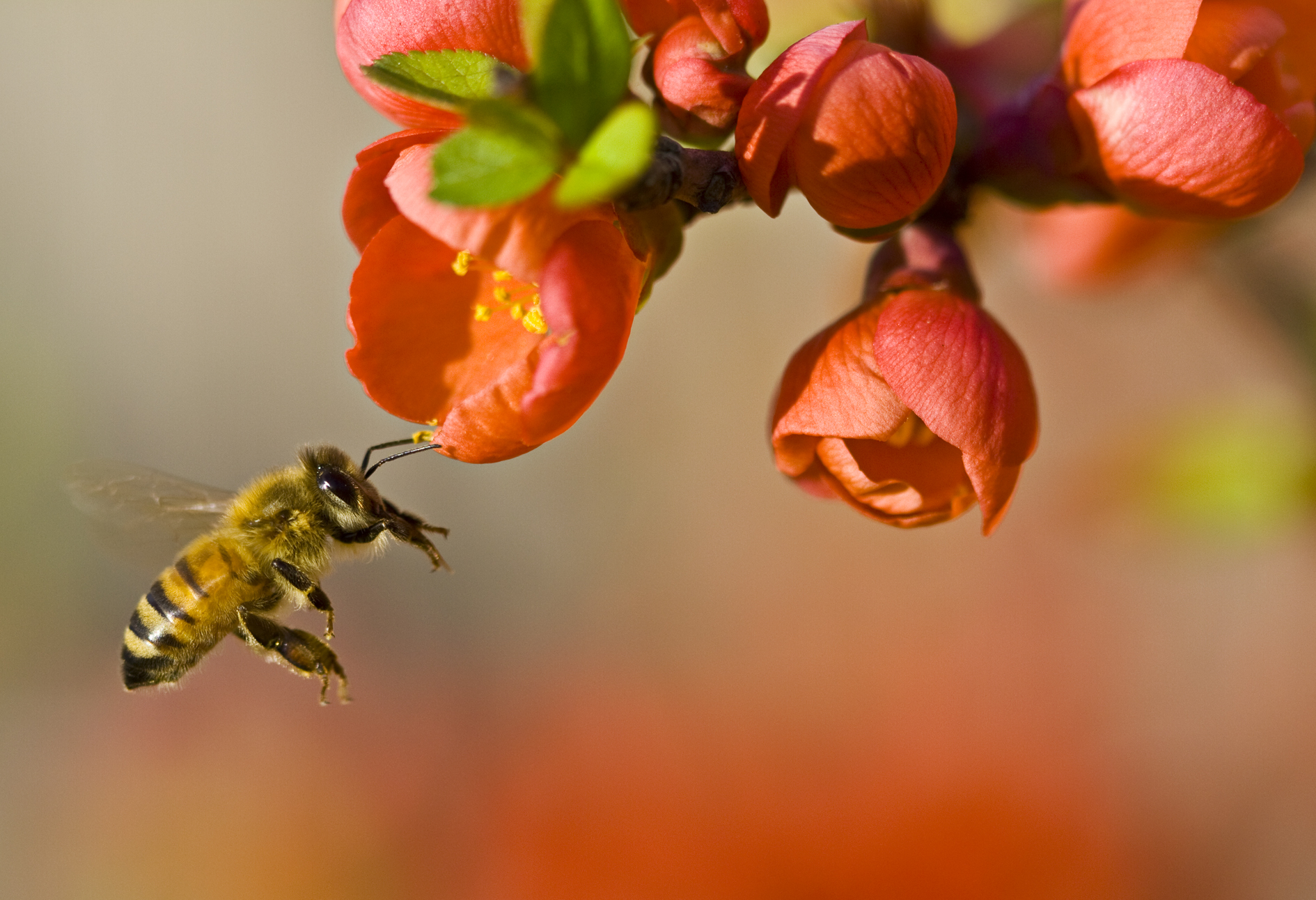 Pollination by a bee.